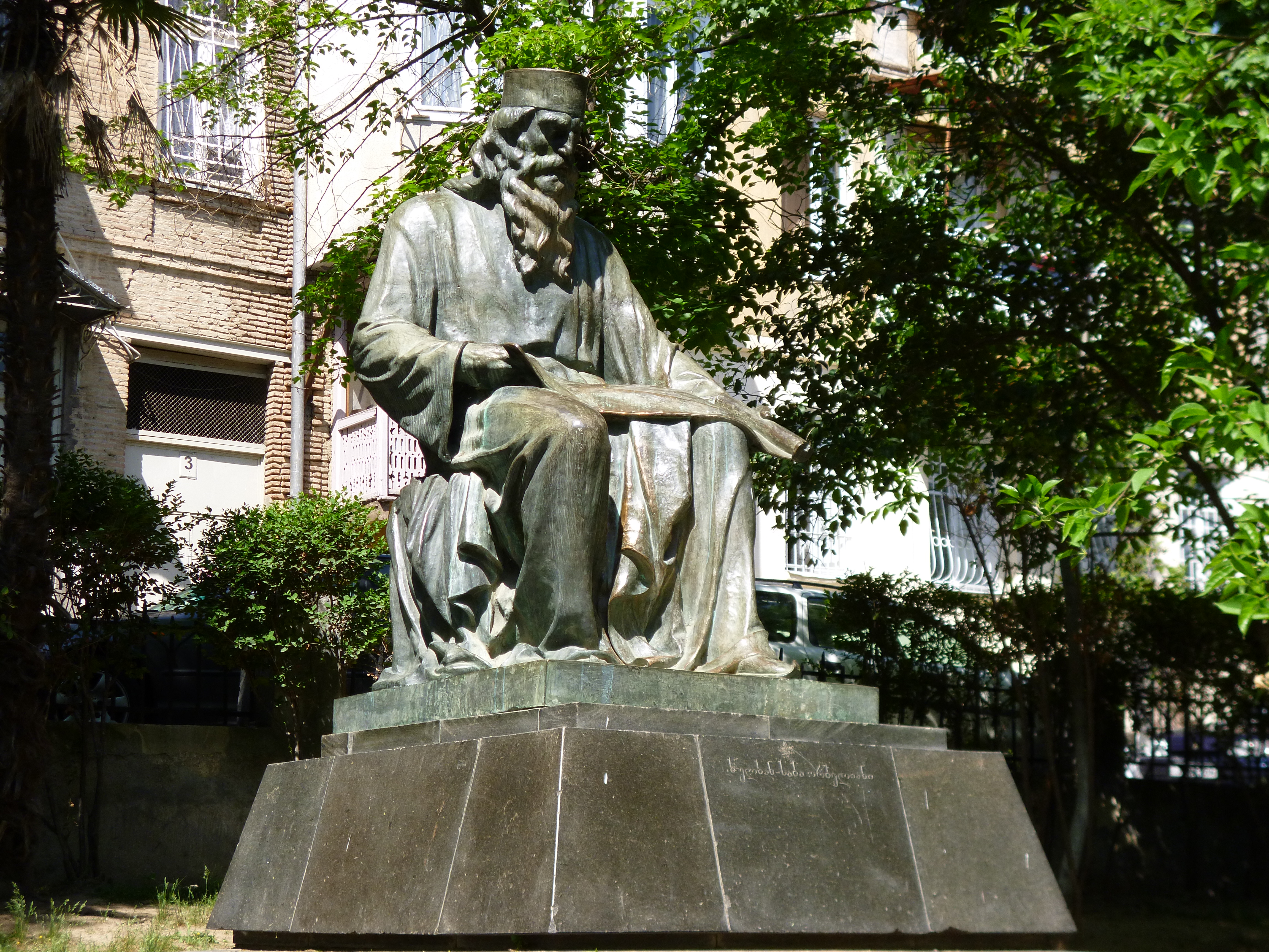 Statute of Prince Sulkhan-Saba Orbeliani in park between Mtatsminda St and Vakhtang Mosidze St. Walking from Rustaveli Square to Mtatsminda Funicular Station (Chonkadze Street)